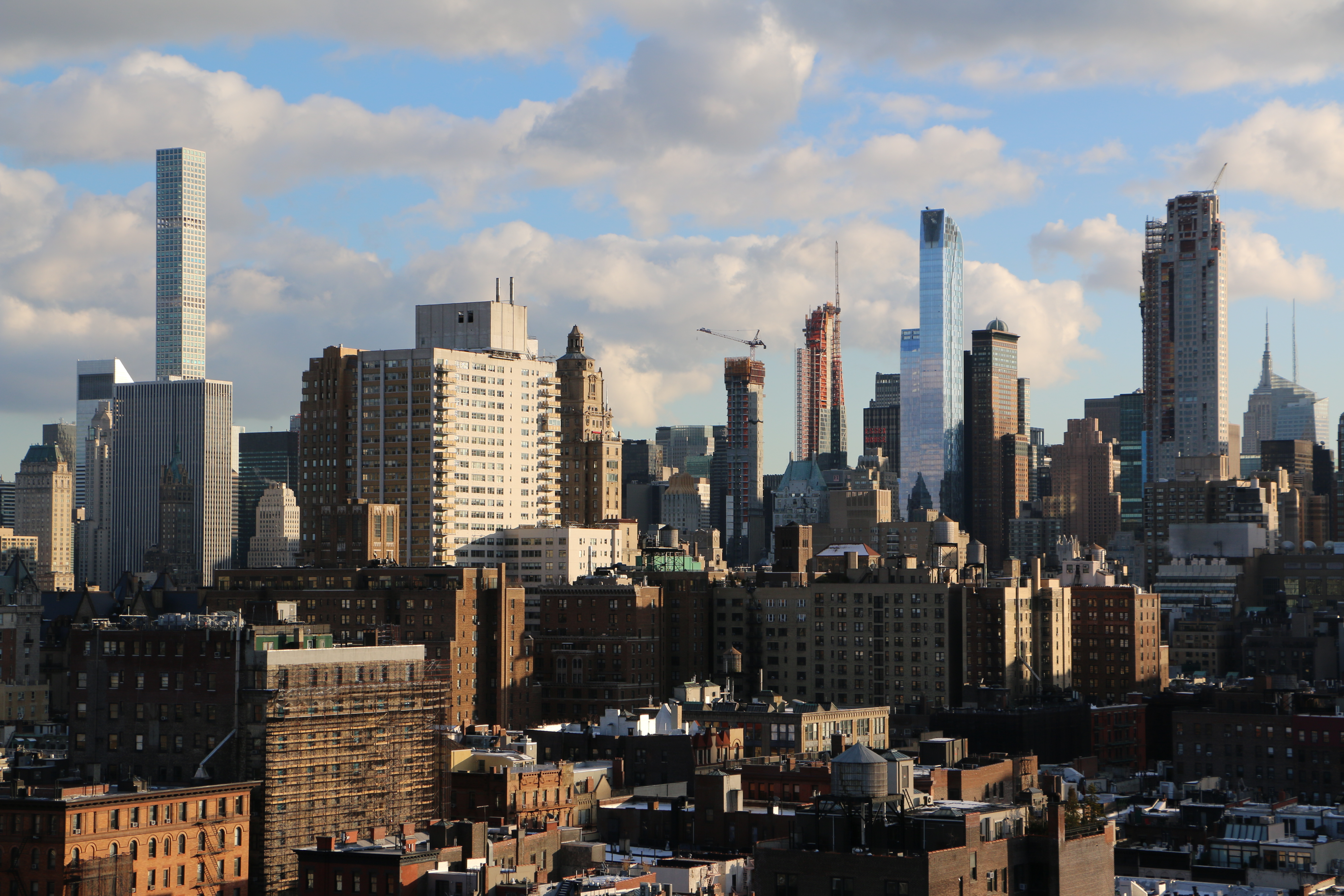 Skyline of NYC, including Billionaires' Row (Manhattan).